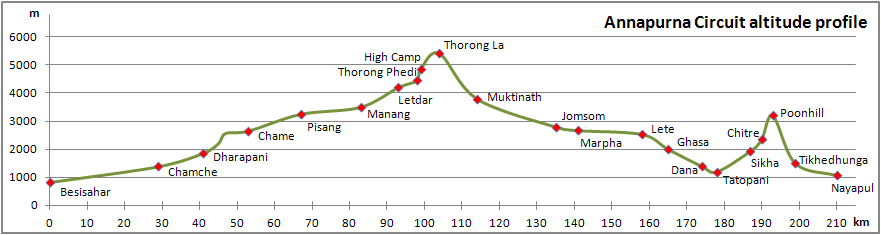 Annapurna Circuit trek altitude profile